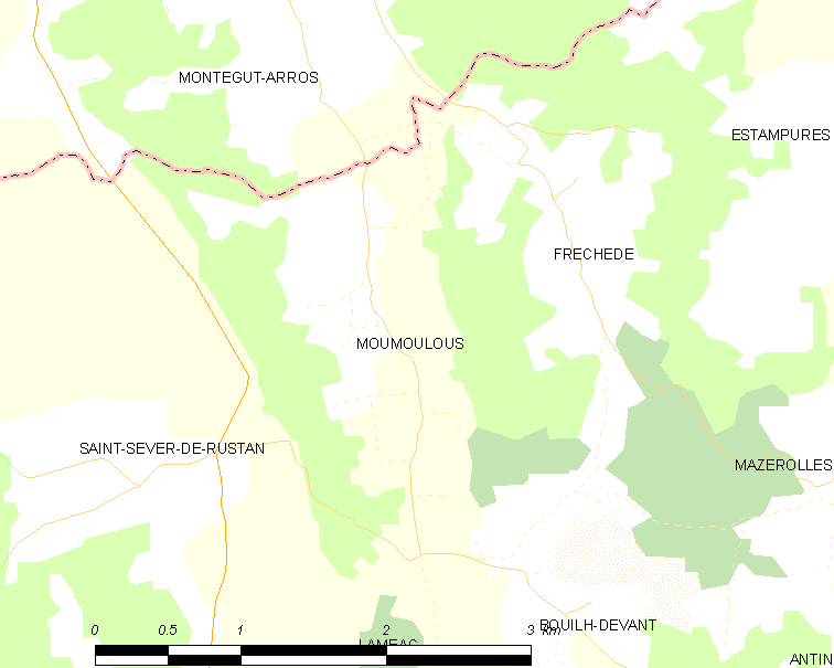 Map of French municipality